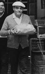 Mario Luciani- actor